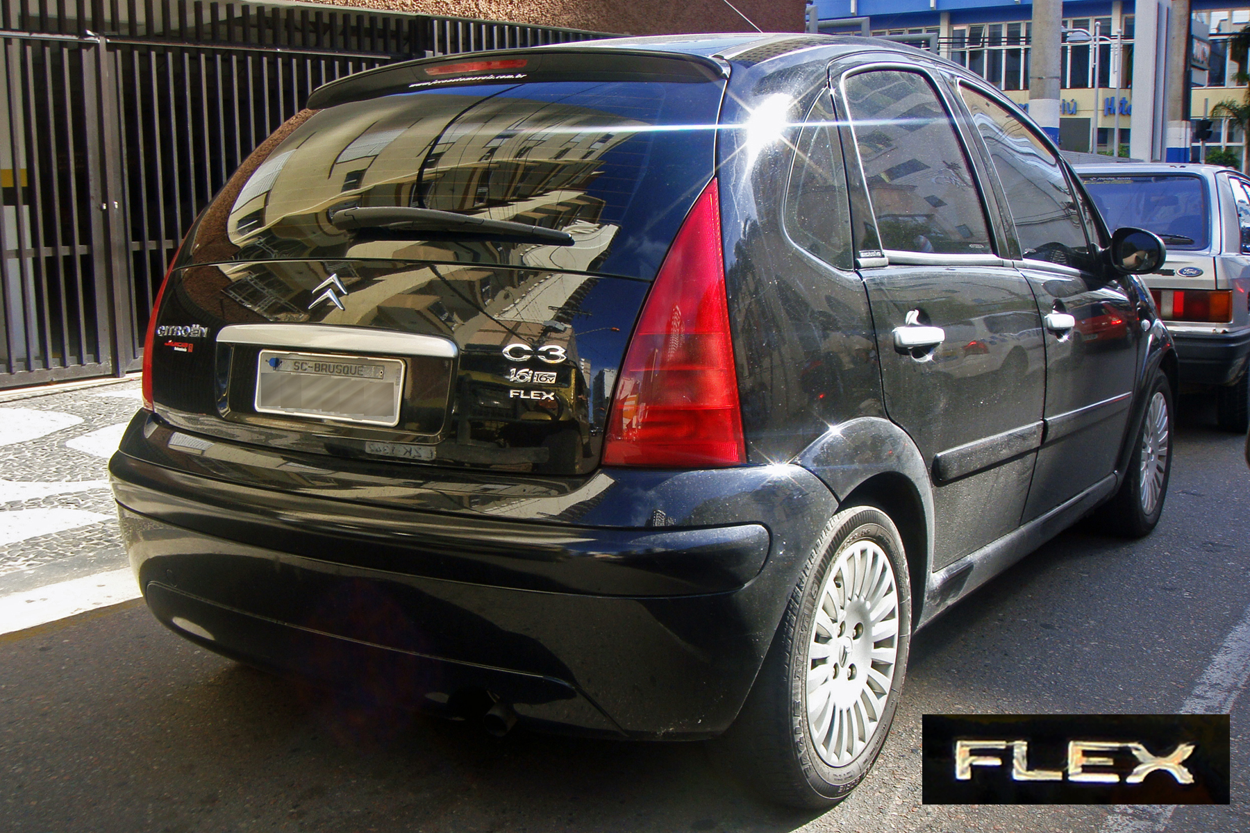 Brazilian Citroën C3 flexible-fuel version. Santa Catarina, Brazil